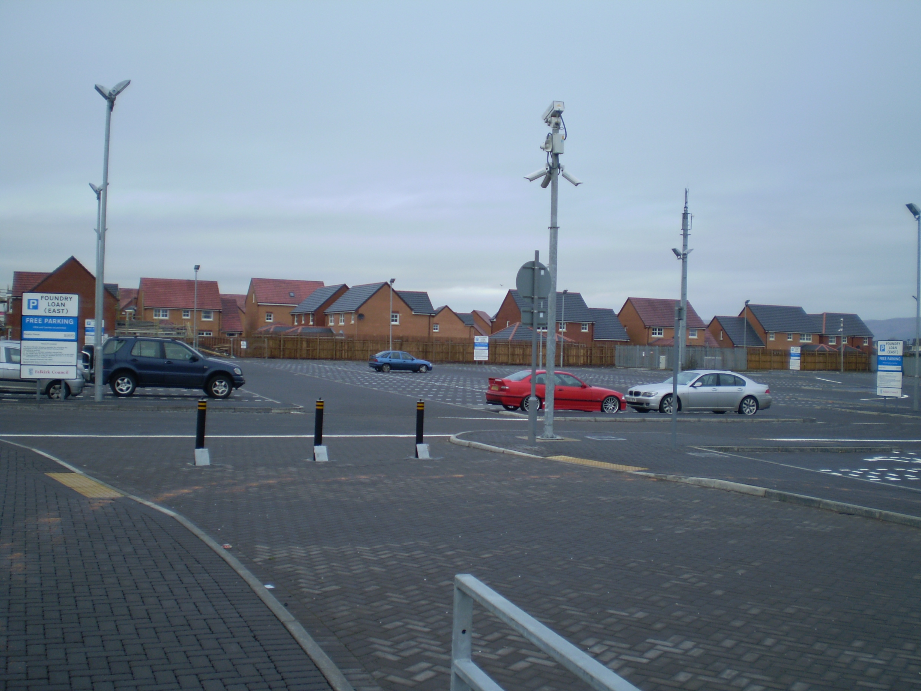 A view of new housing and public transport hub in the centre of Larbert, Scotland